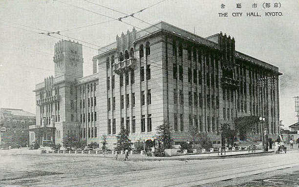 Postcard of Kyoto City Hall building, after the first phase construction completing the east half